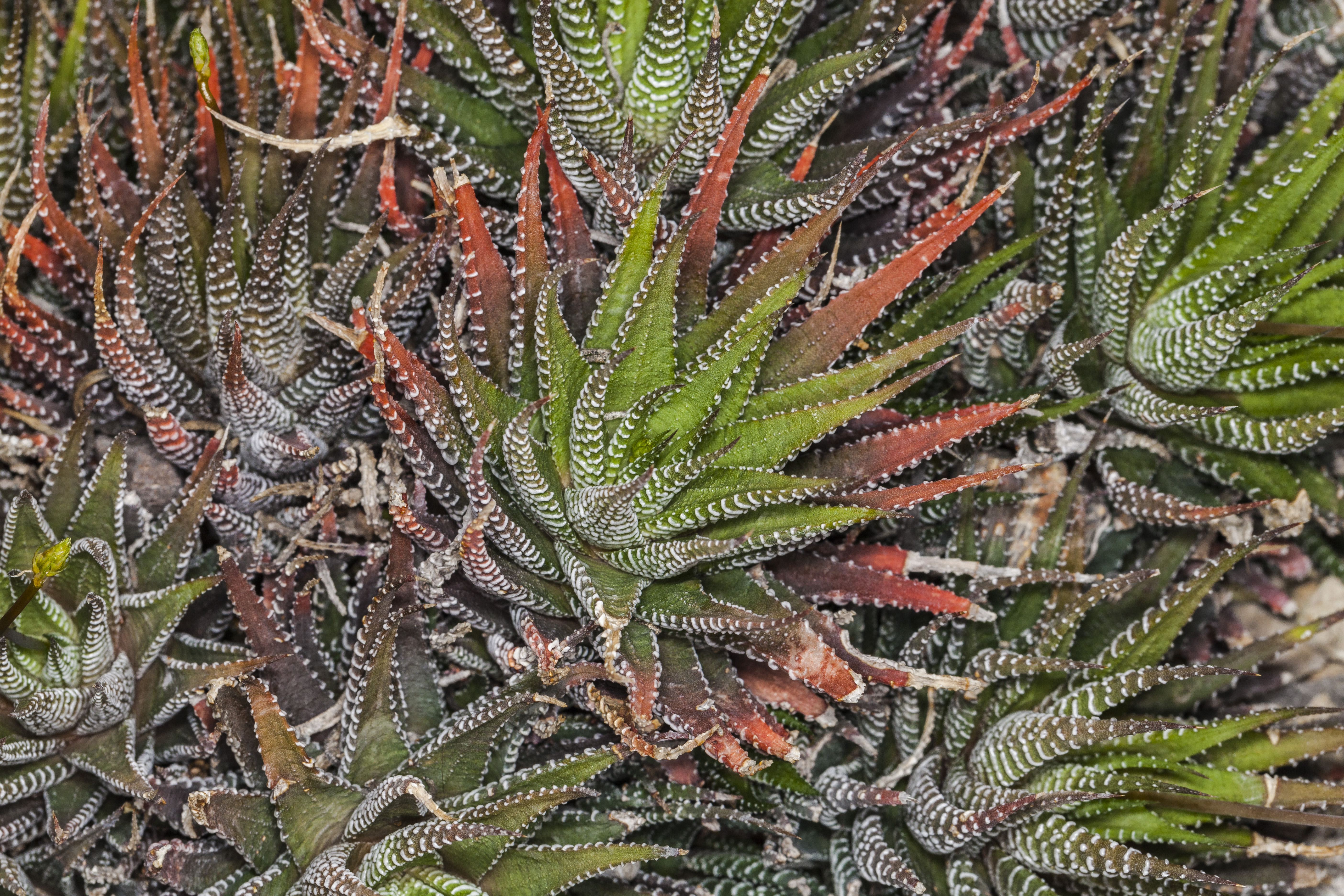 Haworthia attenuata, Munich Botanical Garden, Germany